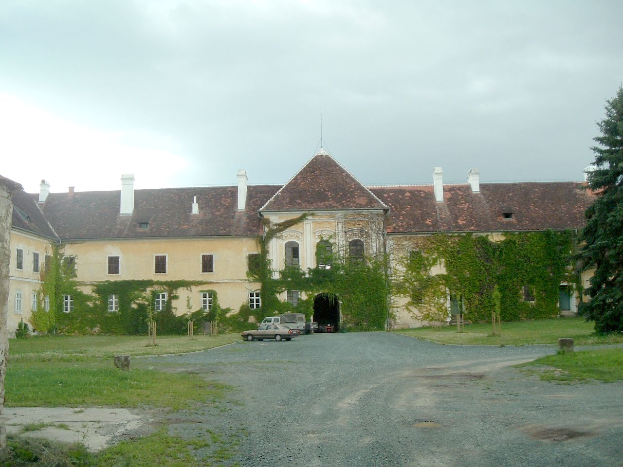 Kohfidisch (Gyepűfüzes), mansion